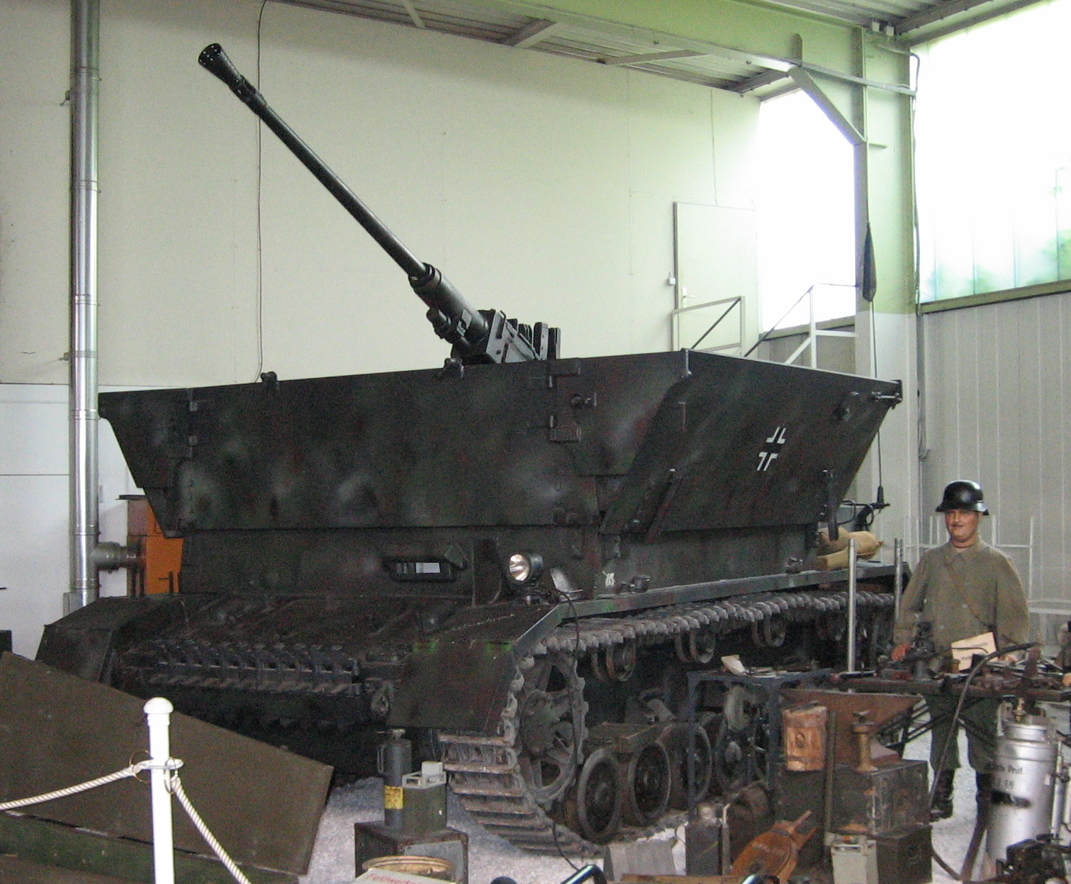 Flakpanzer IV "Möbelwagen" at the Auto- und Technikmuseum Sinsheim / Germany. Picture taken in may 2006 by Christian Kath (me).